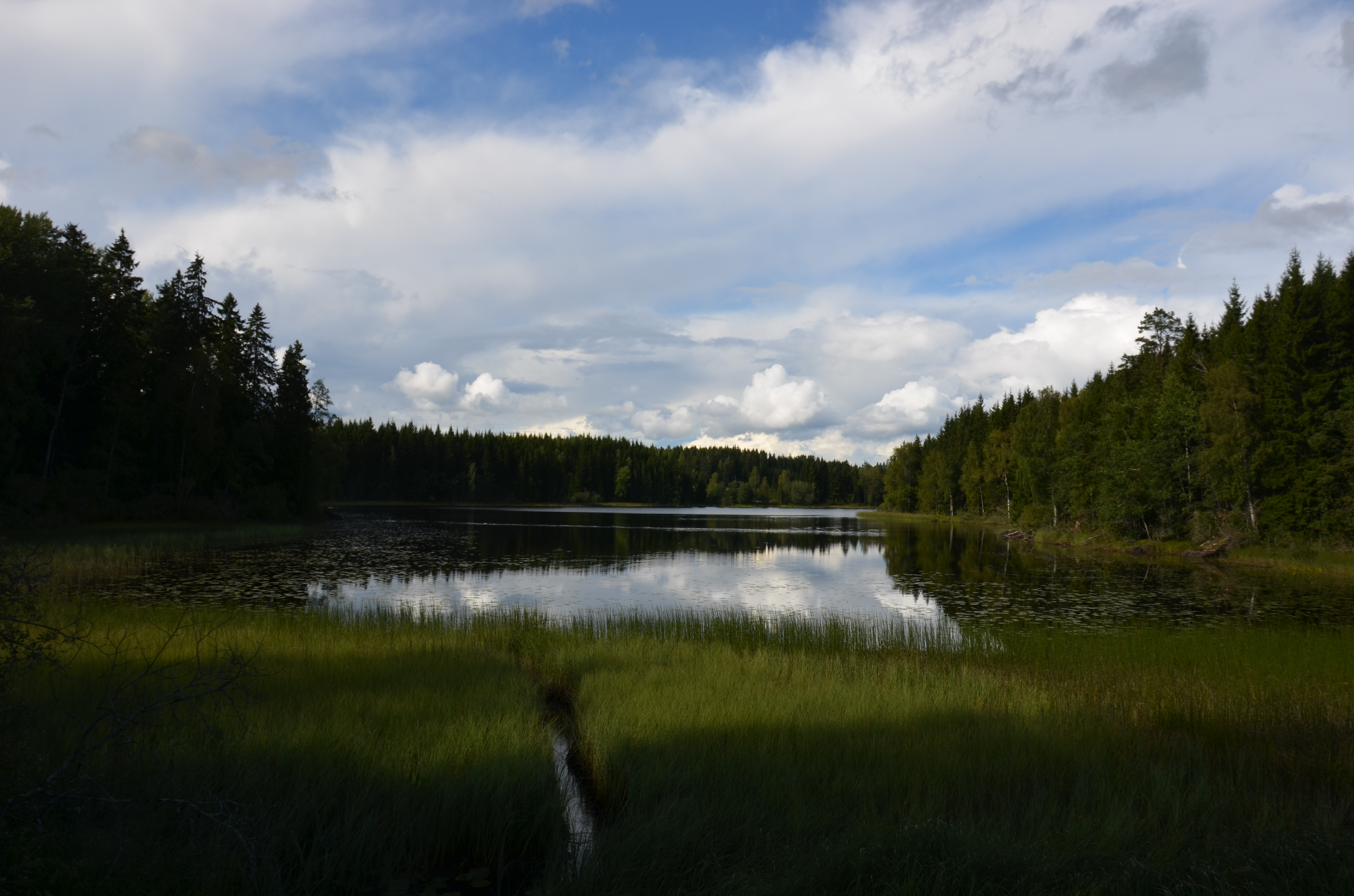 Snytkalven, vid Broarna i Norbergs kommun